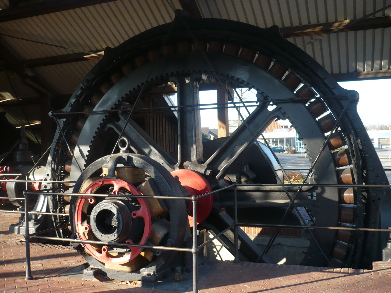 Steam engine with generator in Melle, Germany